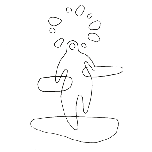 Jentil, geant being of Basque mythology